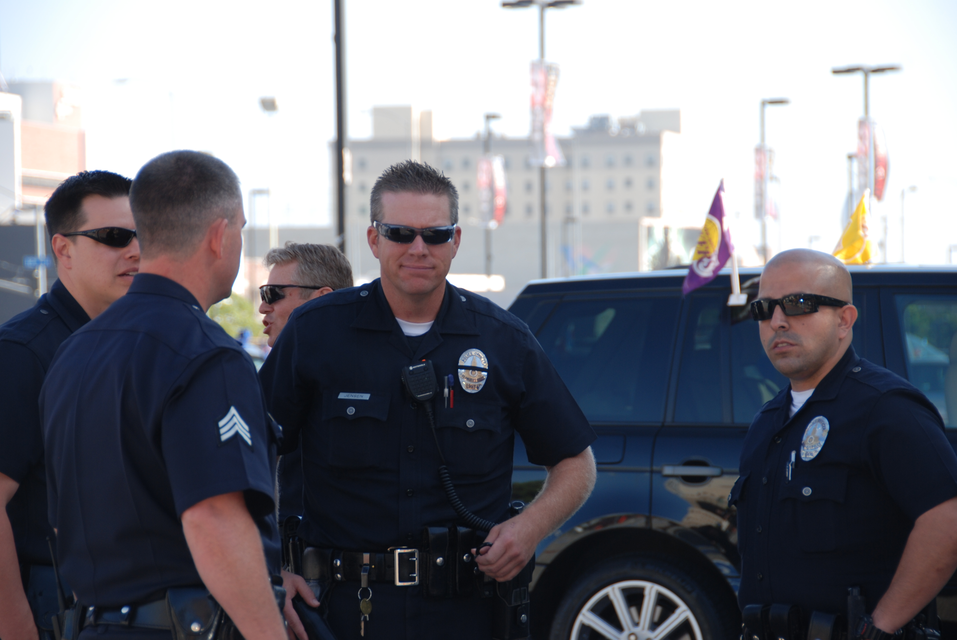 LAPD officers on patrol outside of the staples center.